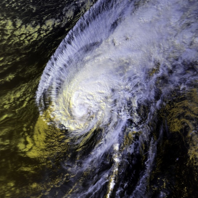 Hurricane Iwa from NOAA-7. Inventory ID: NSS.GHRR.NC.D82327.S2323.E0110.B0732021